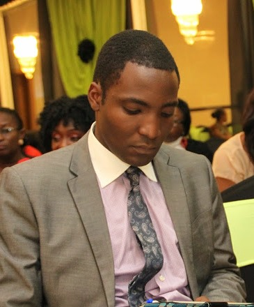 Yomi Owope at the First Women in Journalism Conference at the Civic Centre in Victoria Island, Lagos in 2014